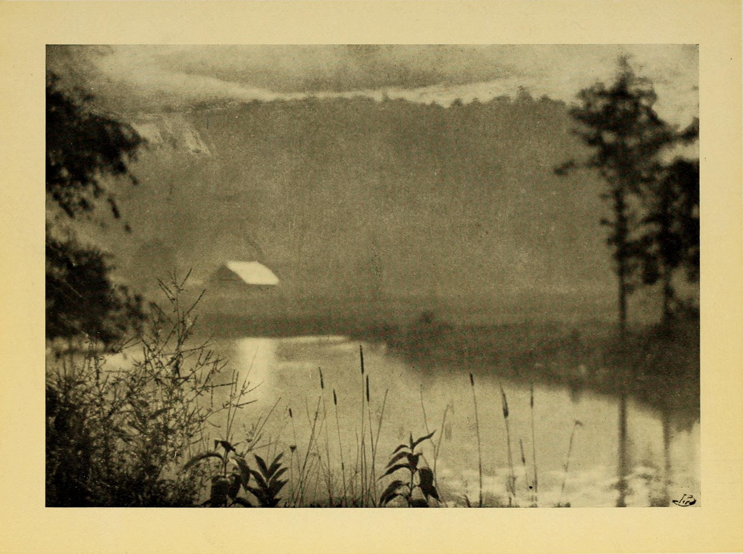 In the gloaming on Cussewago (Cussewago Creek, Pennsylvania) Title: The Kaldron Year: 1922 (1920s) Authors: Allegheny College (Meadville, Pa.) Subjects: Allegheny College (Meadville, Pa.) College yearbooks Universities and colleges Publisher: Meadville, Pa. : Allegheny College Text Appearing Before Image: 5- Cussewago What I loved best was early MayAnd the bliss of an ungrudged holiday,Speak not of motors, a canoe,Spring mornings charm, Ill take, and you.The millrun meets the rivuletThat winds away to another worldIn a vale between the hills encurled.No class bell calls, no quizzes fret.Ah, who has known will not forgetThat trail of trails where blithefullyThe waters dance as Pan has playedSo well to the heart of many a maidThat she has kinder been than sheIn other moments meant to be.Well not forget! When I get my mindAwaj from some livelihoods hard grind,And Springtime mornings first are fine,Ill come again in the land of dreamTo float with you on that well-loved stream-To float with you, old Friend of mine. Text Appearing After Image: The Campus—Morning It is a new place,A new white place of foliageWhere white branches reach into grey skies-In lacy confusion.When, we walk beneath themWe are in a great, still conservatoryWalking beneath curious, white plantsBending down to touch us.We brush against white hedgesBearing fruit like cotton ;Yet snow sifts down from them.Here is a rustic bridge and there, a bowlder-It must be an old place! The campus is a jungle whiteWhere branches intertwine, Luxuriant growth ou left and right;White maze of twig and vine. The jungle is a silent place Where breaking trees bend low; And seeds that fall through jungle laceSift to the earth like snow. The sky has dropped its burdenUpon ragged pinesStanding submissiveBeneath the white weight of it.The sun plays upou the sceneIn dazzling joy. ■SN ■■ tM